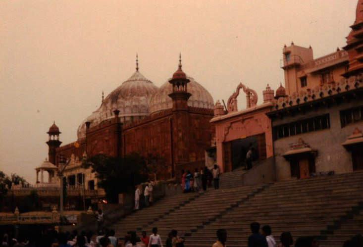 A picture of Krishnajanmabhoomi taken in 1988